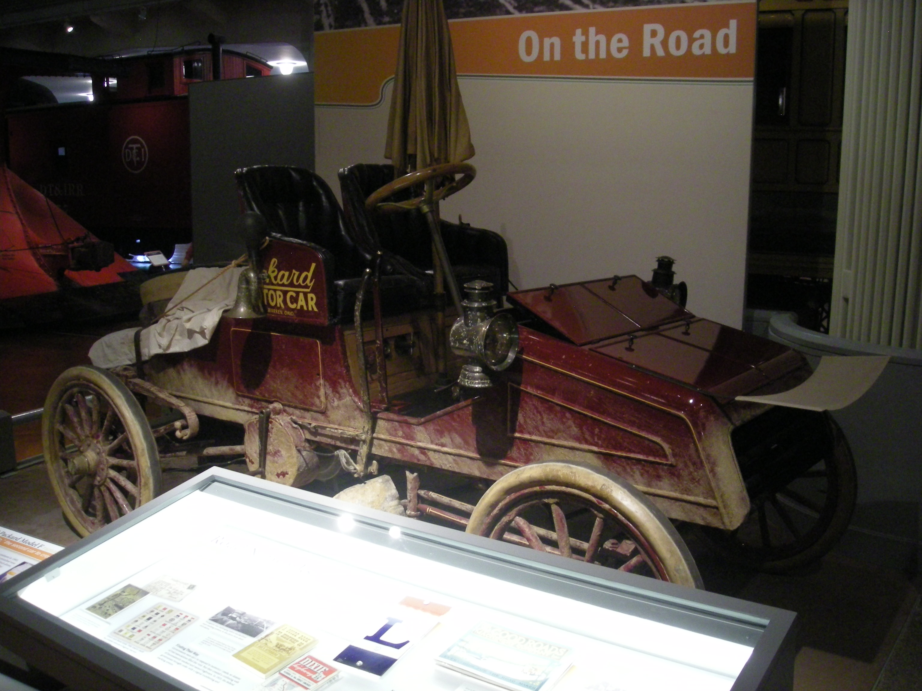 1903 Packard Model F "Old Pacific", which in 1903 became the second car to cross the United States, on display at the Henry Ford Museum in Dearborn, Michigan (United States).